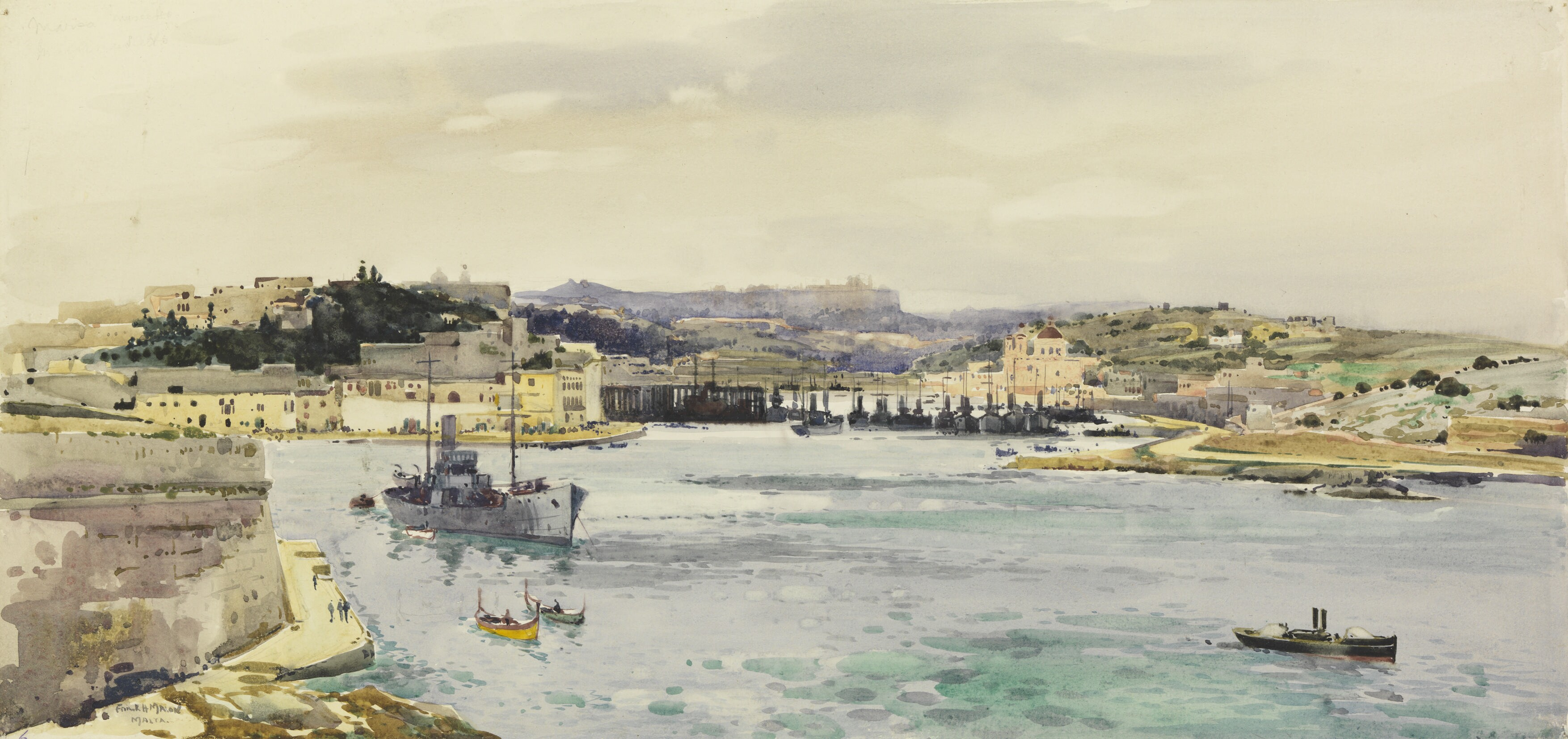 Marsamuscetto - the Hydraulic Dock. Base for mine-sweepers, patrol trawlers and Mls. Citta Vecchia in the distance. image: view of a large harbour entrance, with an inner basin to the right and town buildings all around. In the left middle ground a small naval vessel and local boats, while other naval vessels are moored in the basin to the right.